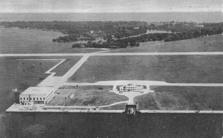 Postcard view of the Toronto Islands airport and Centre Island, Toronto, Canada. Although long since replaced by newer facilities, the original terminal building (as seen in this image) was designated a National Historic Site of Canada in 1989.